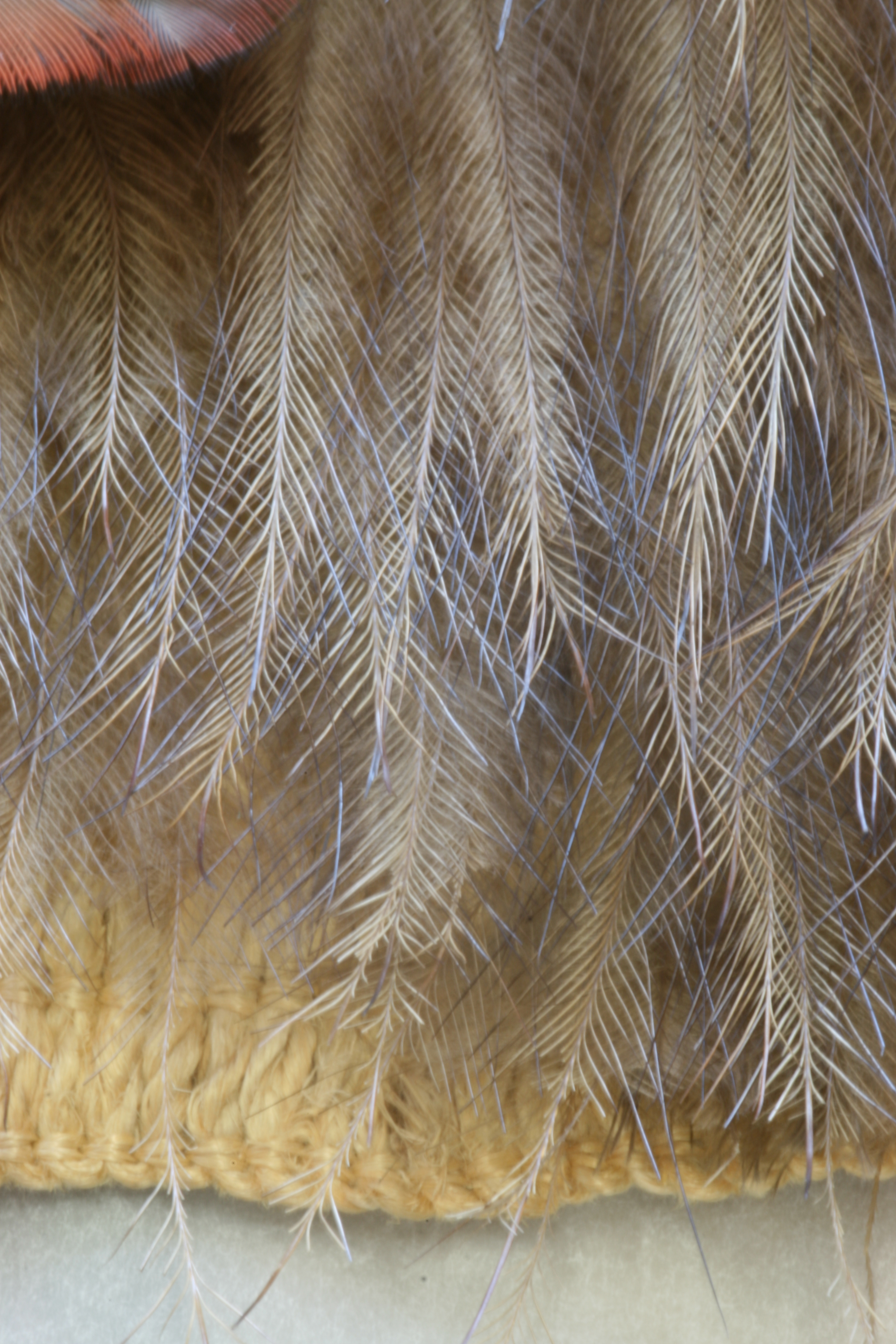 Detail of the bottom border of a Māori kahu kiwi (Kiwi feather cloak), showing the weave. The distinctive nature of the kiwi feather can clearly been seen. In the top left is a conventional brid feather. The original cloak is held in the John Cawte Beaglehole Room at the Victoria University of Wellington.